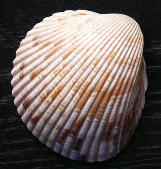 Dinocardium robustum (John Lightfoot, 1786) from Caribbean Sea Source: detail from Image:Bivalvia.jpg Licence: self-made photo, May 2005